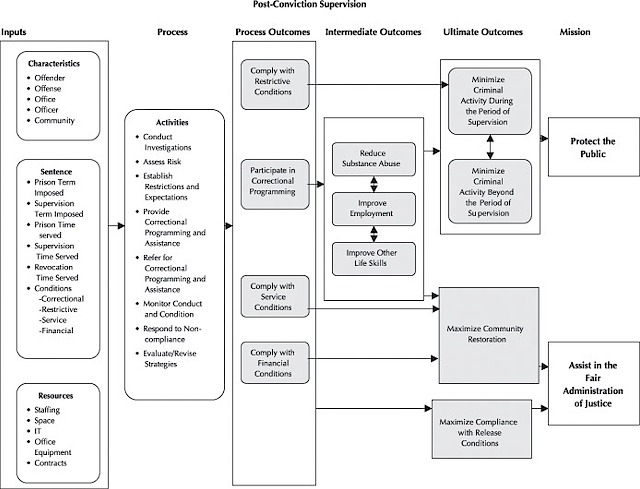 A flowchart depicting the life cycle of federal supervision for a defendant in the U.S. justice system. It is no longer available from the government website. This will be used in the federal supervised release article.